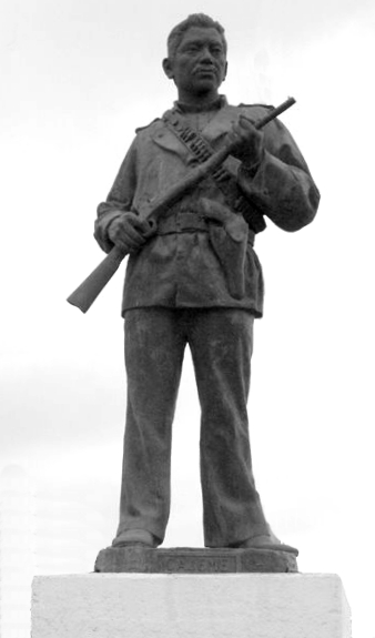 The Statue of Cajeme — Monument to the Yaqui history of Mexico. Located on Highway No.15 and Cananea International, at the north entrance to the City of Obregon, in Sonora, Mexico